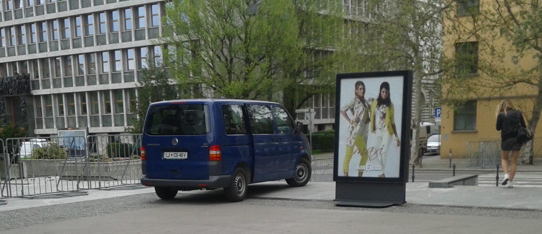 Demonstration in Ljubljana on Saturday, April 27th, 2013. The demonstration is being organized by the All Slovenian Uprising, whose supporters have staged rallies around the country calling for Slovenia’s “political elites” to step down. April 27th holds symbolic meaning (the formation of the liberation front during WWII) and many protesters of the event were wearing Ex-Yugoslav symbols. Around 2000 people attended the event.